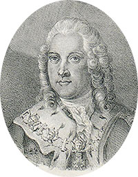 Fredrik Carl Sinclair (1723-1776)